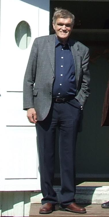 The Icelandic ethnologist and cultural historian Árni Björnsson, 2011